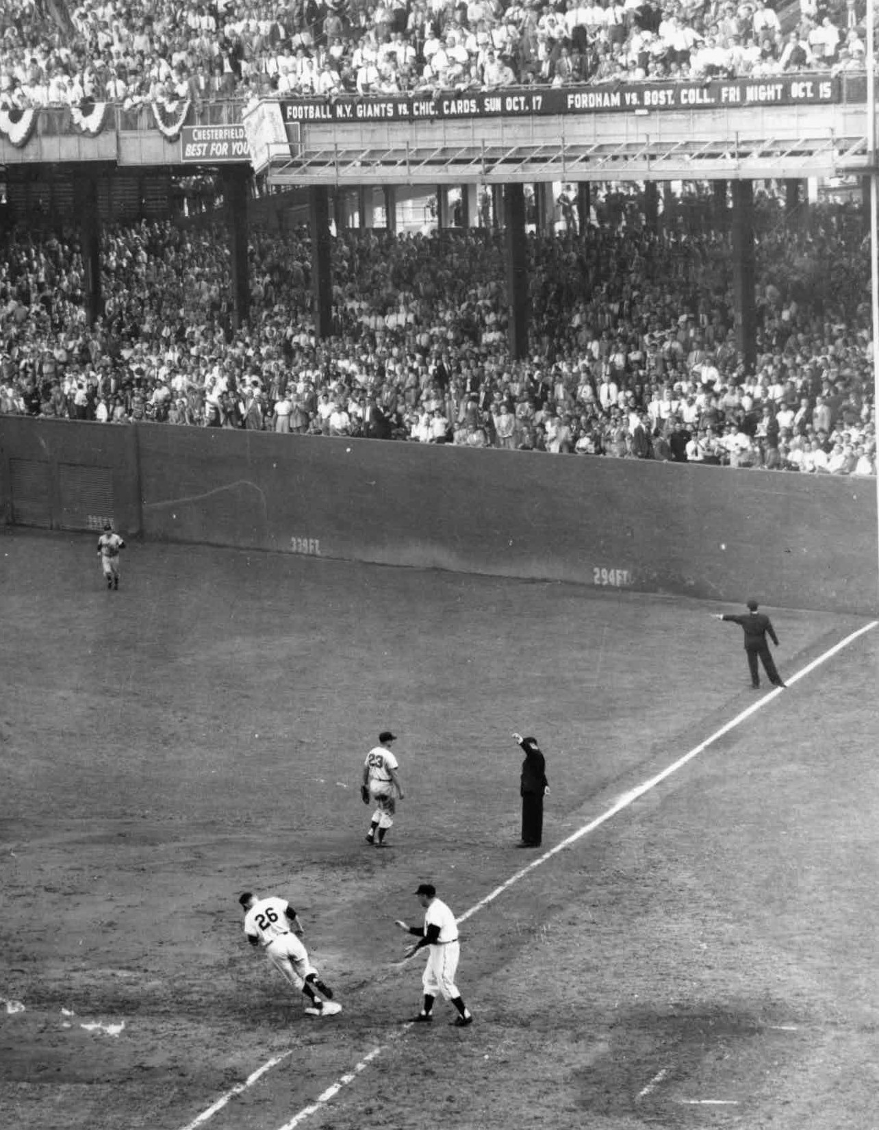 Dusty Rhodes of the New York Giants rounds the bases after hitting a home run during the seventh inning of the second game of the 1954 World Series.